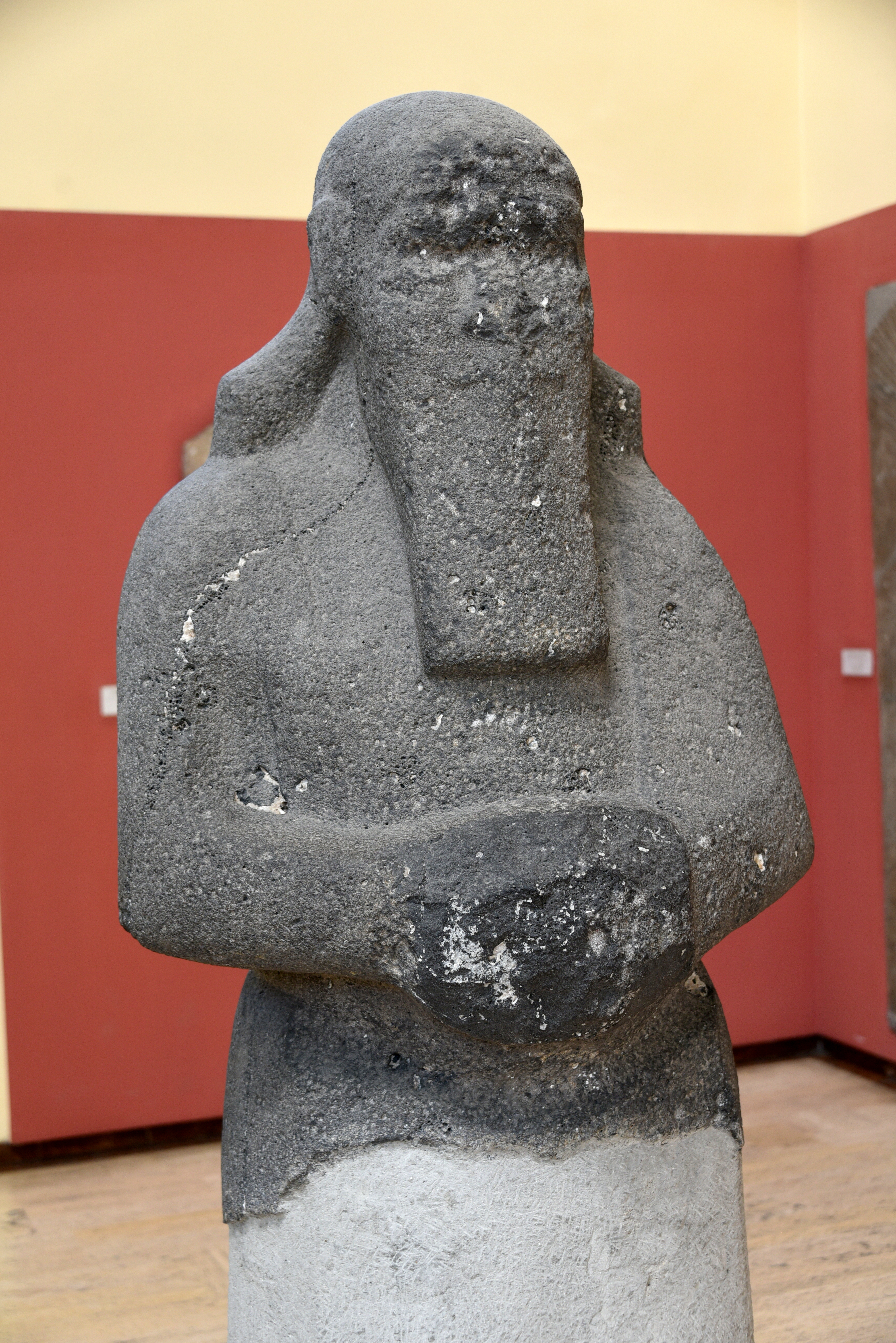 Unfinished basalt statue of Shalmaneser III. From Assur (Ashur), Northern Mesopotamia, Iraq. Neo-Assyrian Period, reign of Shalmaneser III, 858-824 BCE. Ancient Orient Museum, Istanbul.